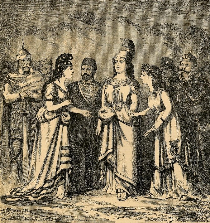 Newsprint illustration. Caption read: "DOMINION DAY-CANADA'S DEBUT AT THE COUNCIL OF NATIONS". Canada, holding the hand of Britannia, is introduced to America while holding a paper that reads "fisheries".